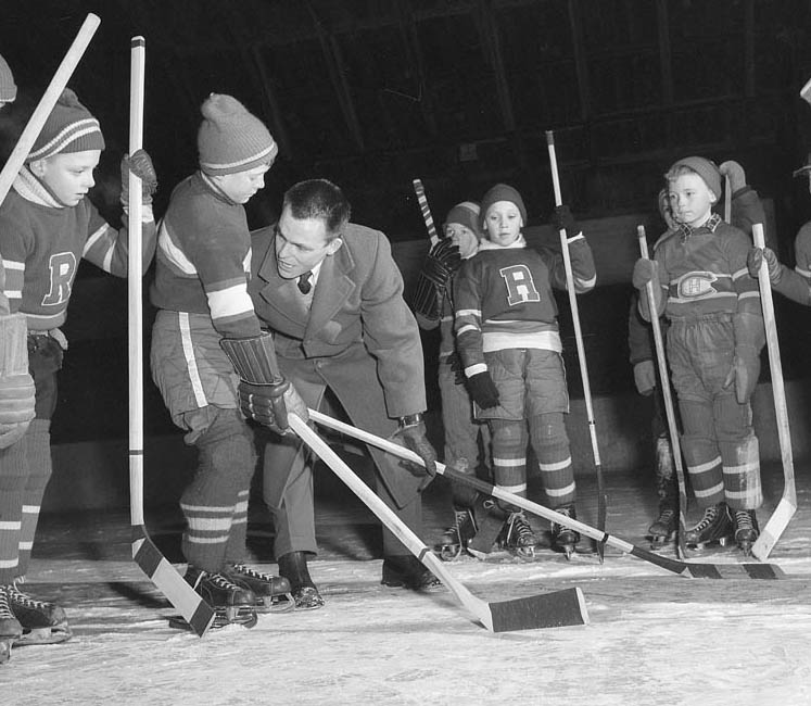 Young hockey players are instructed in proper method of body checking in Arnprior, Ontario, Canada.